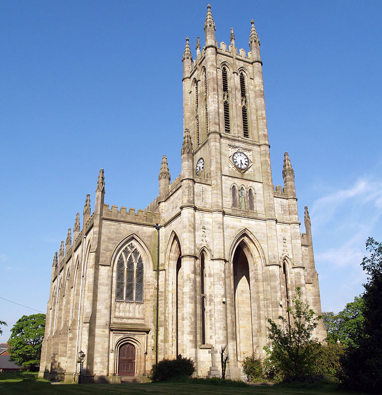 All Saints' parish church, Church Lane, Whitefield, Greater Manchester, England, seen from the southwest